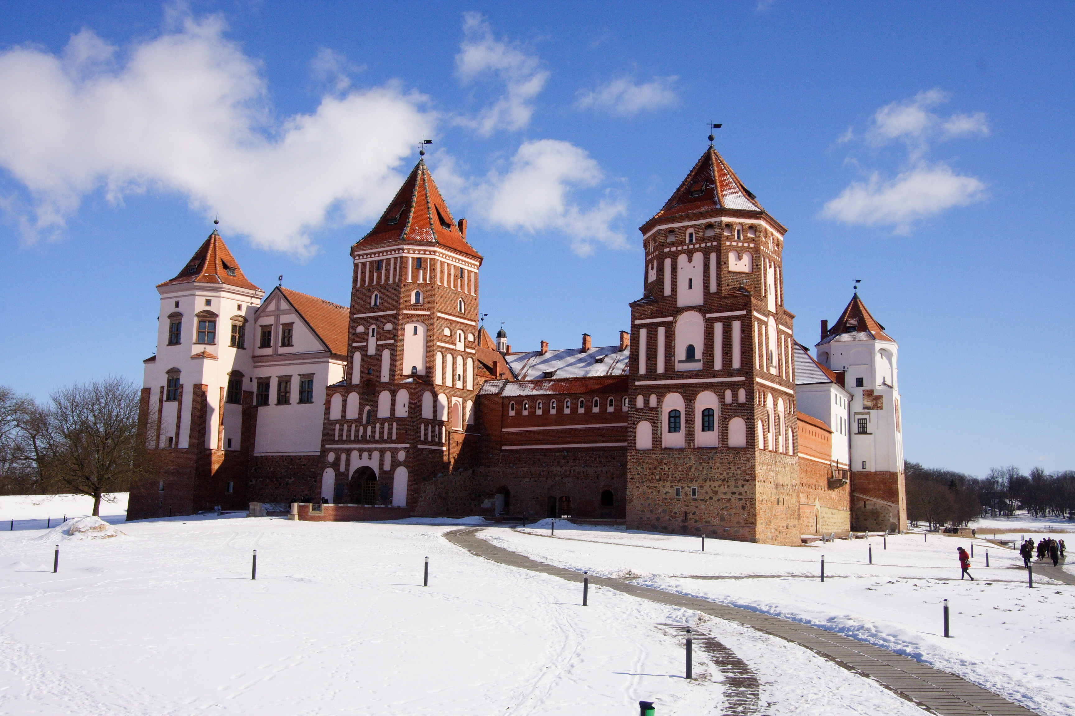 Mir castle in spring